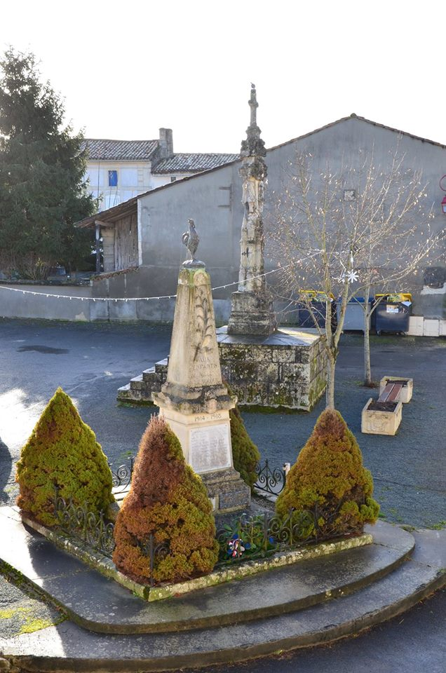 war memorial